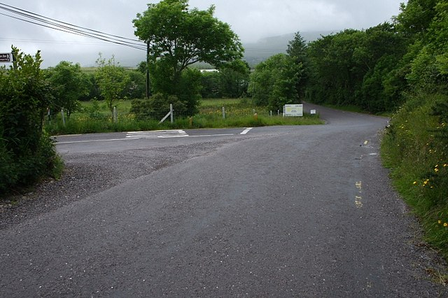 Road Junction Junction of minor roads near Cloghane.